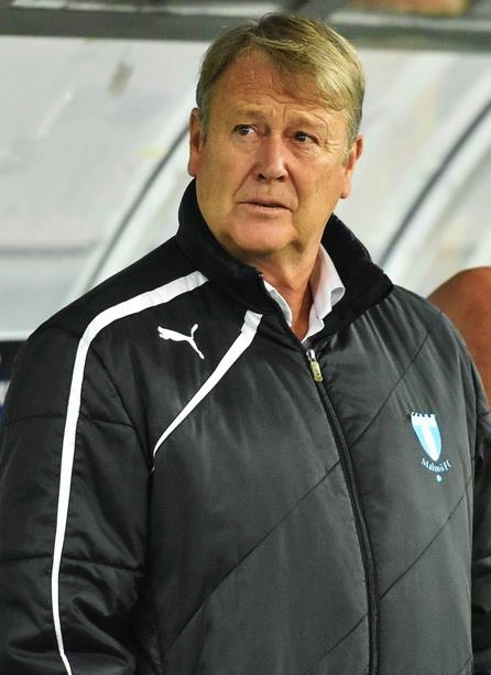 Åge Hareide